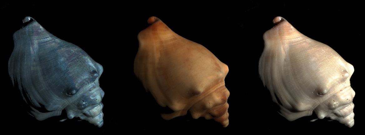 The (left) global and (middle) local components of a (right) photographed shell. This was created using optical descattering with sinusoidal illumination.